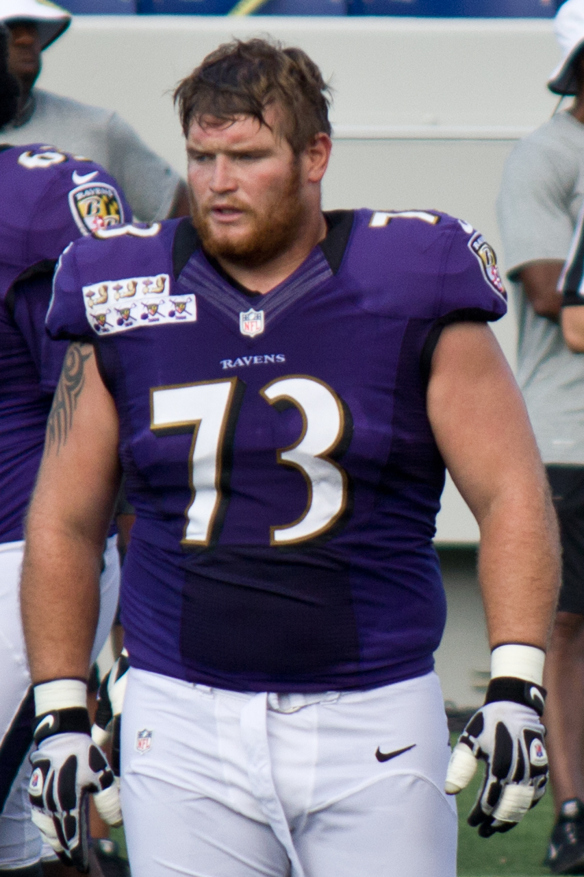 Marshall Yanda during Ravens practice at Navy–Marine Corps Memorial Stadium, August 2012.